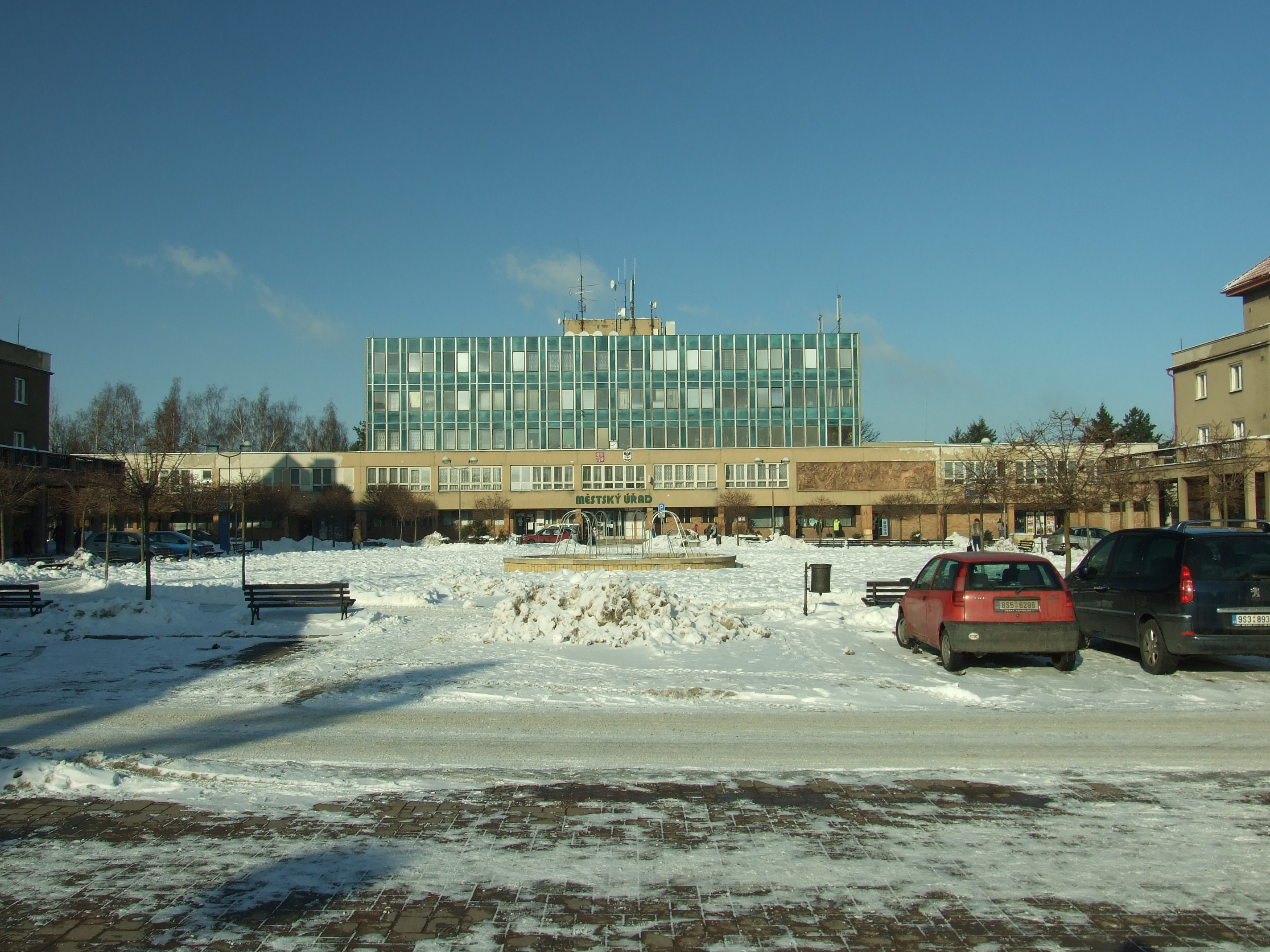 Town hall on the main square in the newer part of in Stochov, Central Bohemian Region, CZhelp